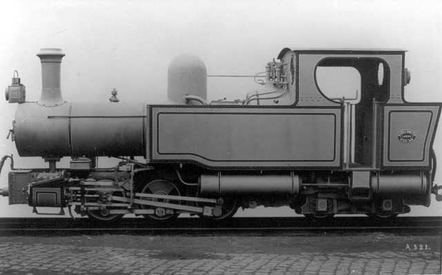 Locomotive Gowrie for the North Wales Narrow Gauge Railways, Hunslet works photograph